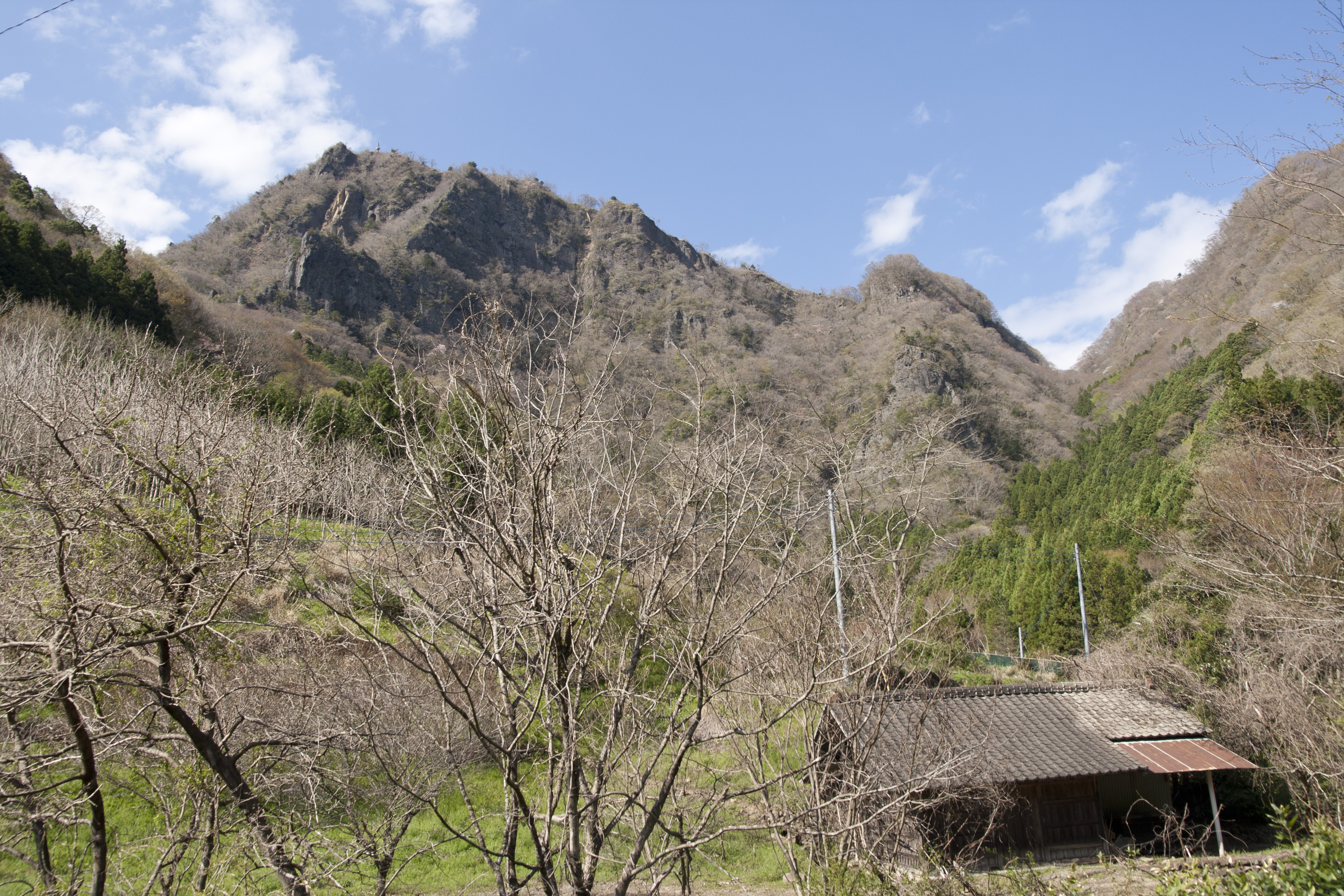 Mount Okukuji-Nantai(Okukuji-nantai-san おくくじなんたいさん 奥久慈男体山), Ibaraki Pref., Japan